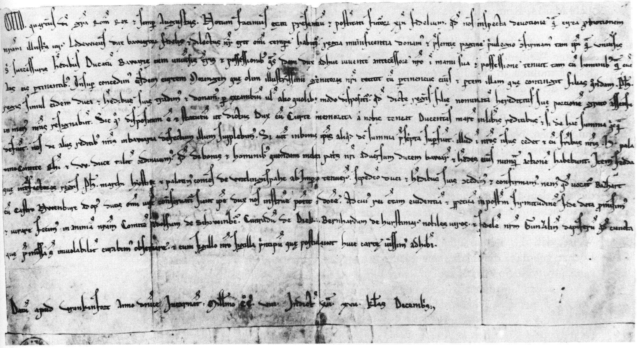 Charter of king Otto IV of Germany, enfeoffing duke Louis I of Bavaria with his duchy. Issued on November 15th, 1208. München, Bayerisches Hauptstaatsarchiv, Kaiserselekt 593.